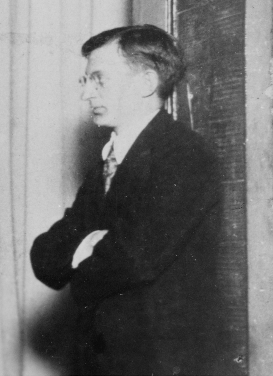 Alfred Kreymborg on the corner of a stage, circa 1917.